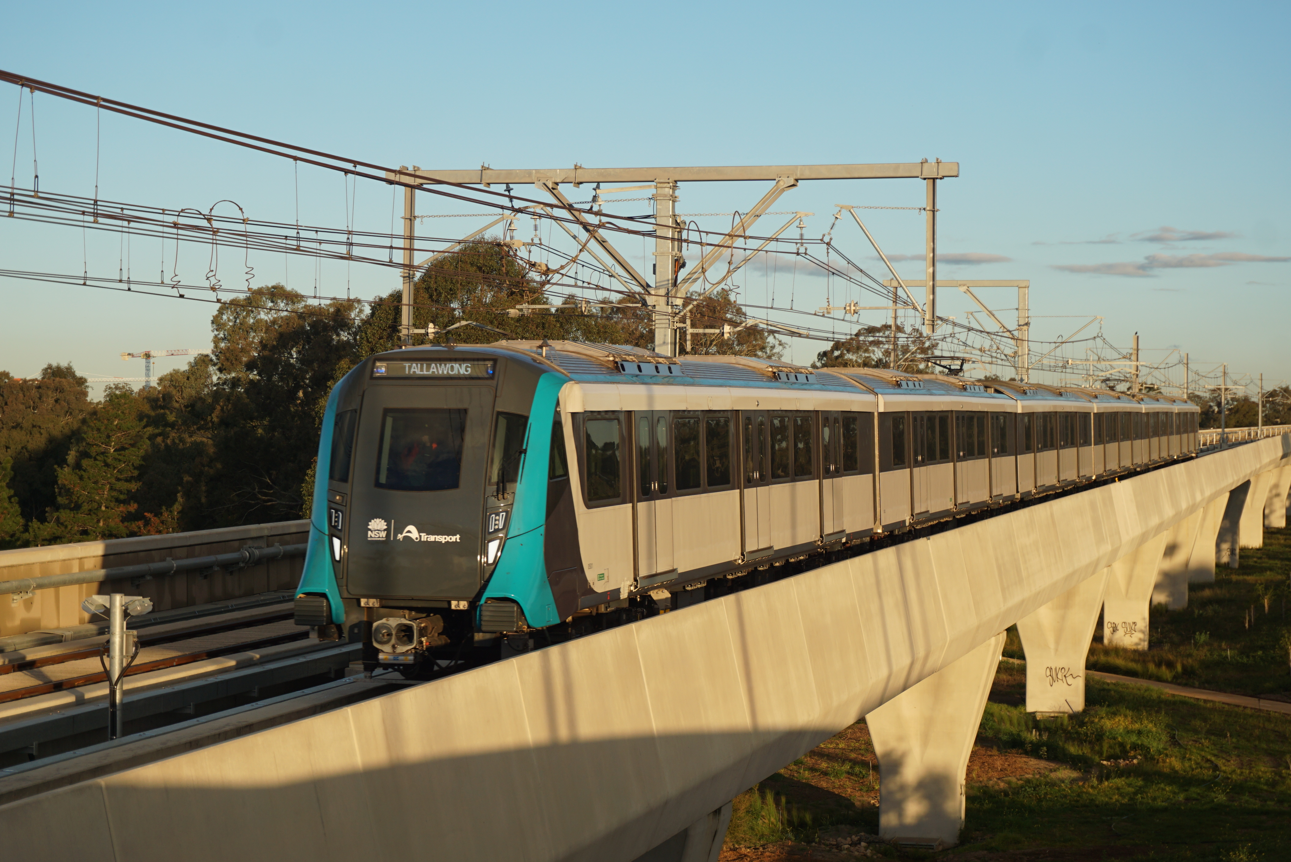 Sydney Metro Kellyville Sunset